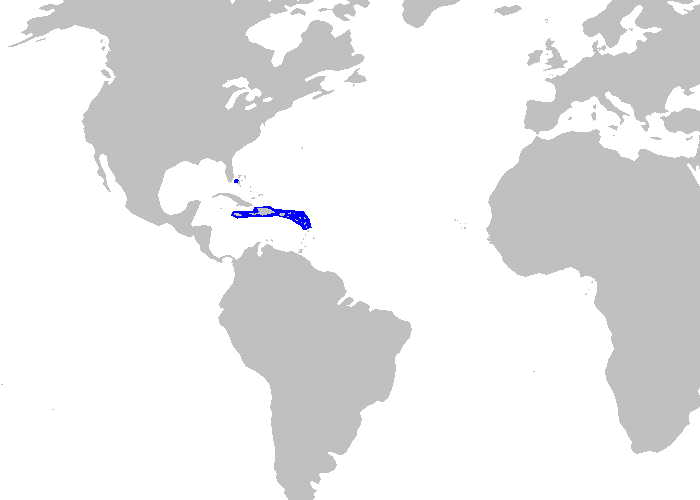 Distribution map for Galeus antillensis